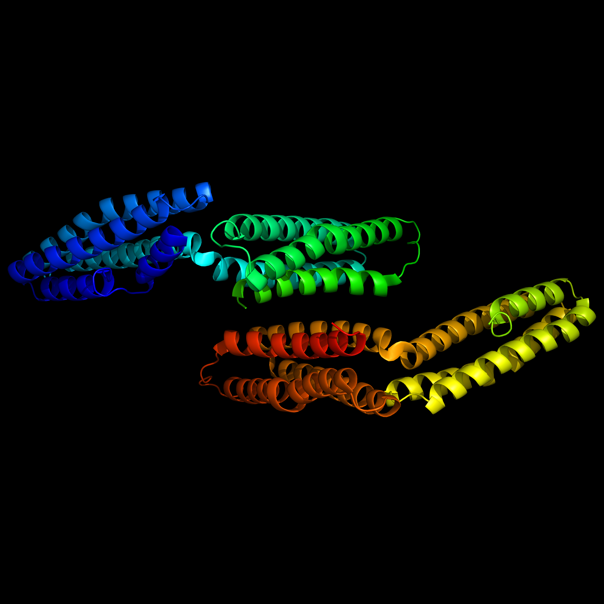 Ribbon model of α-Catenin, after PDB: 1H6G​.